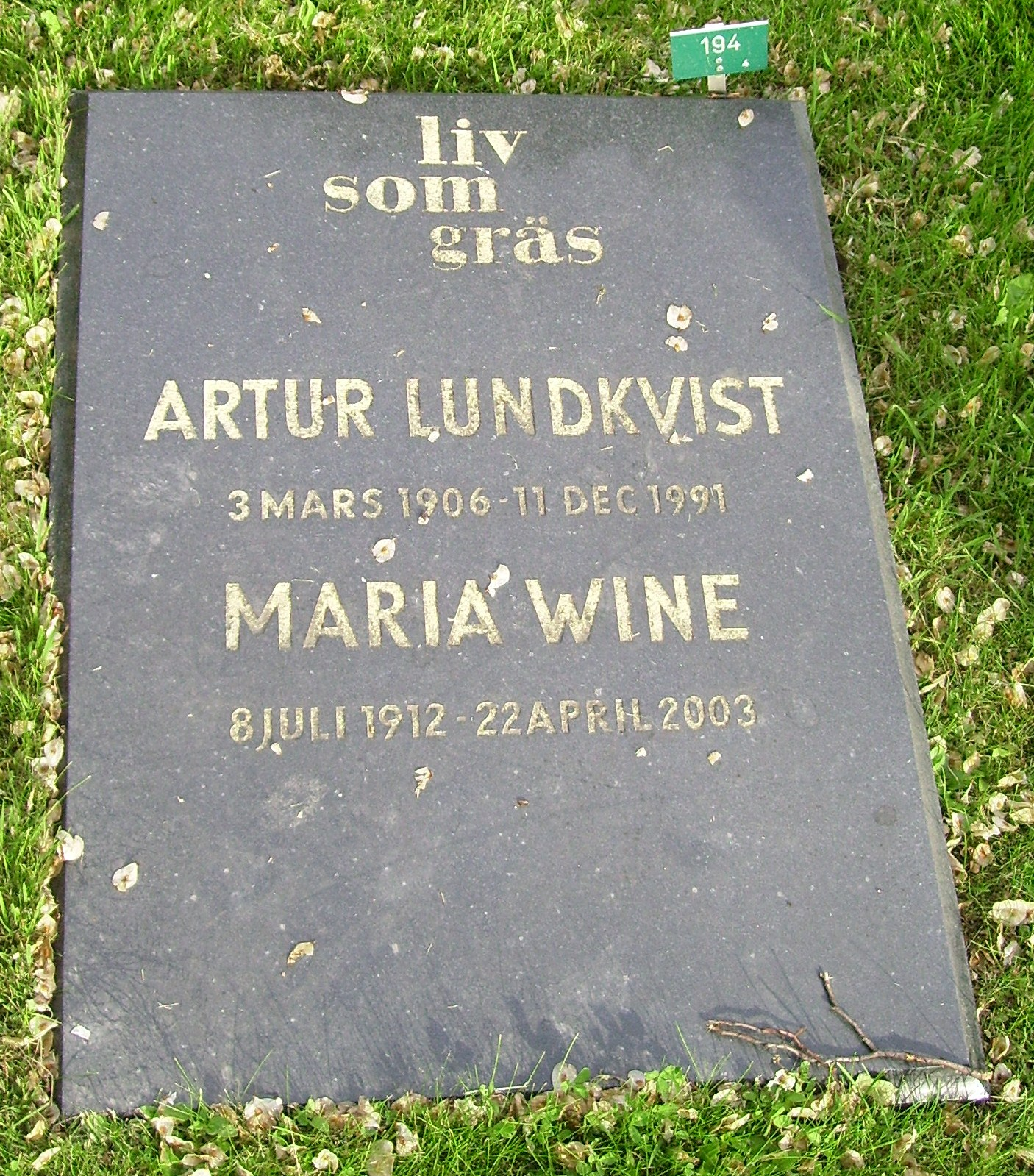 Picture of Artur Lundkvist's grave at Solna kyrkogård